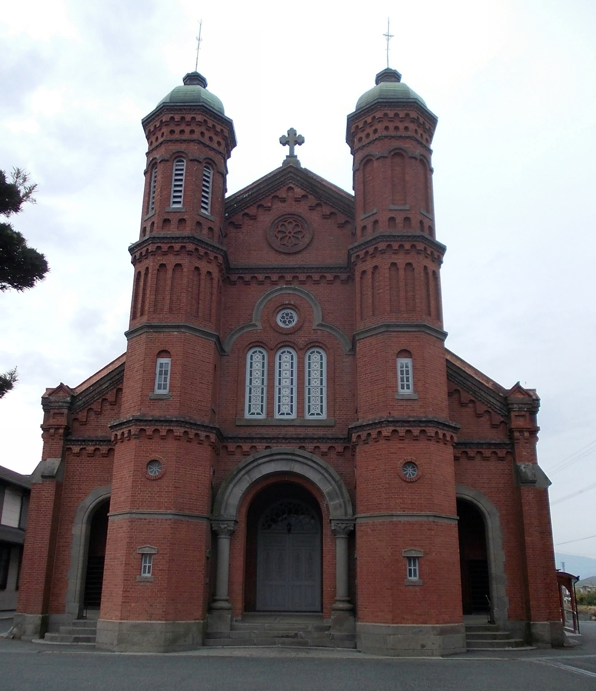 Imamura Catholic Church, Tachiarai, Fukuoka, Japan